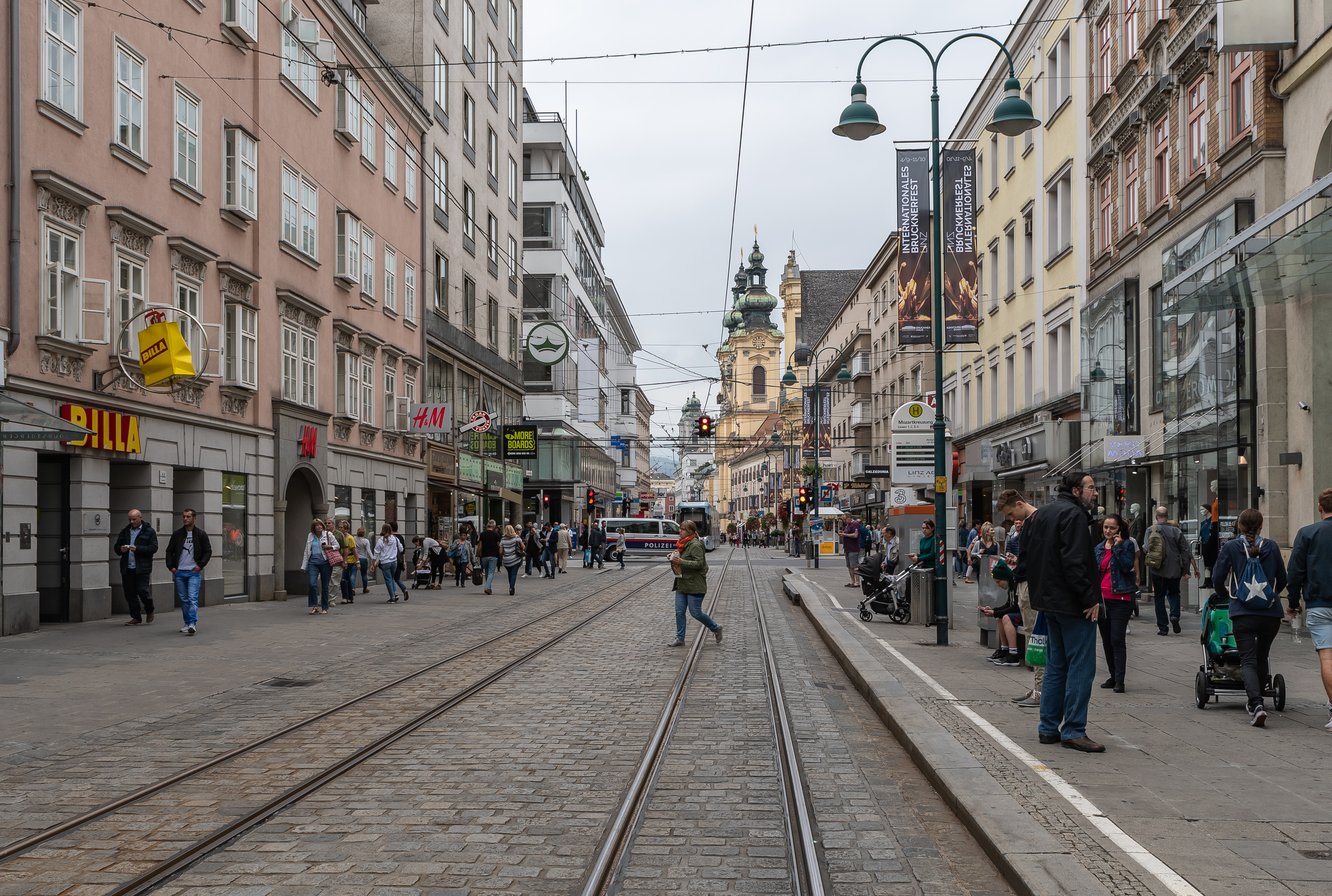 Landstraße in Linz is the traditional shopping street of the town.